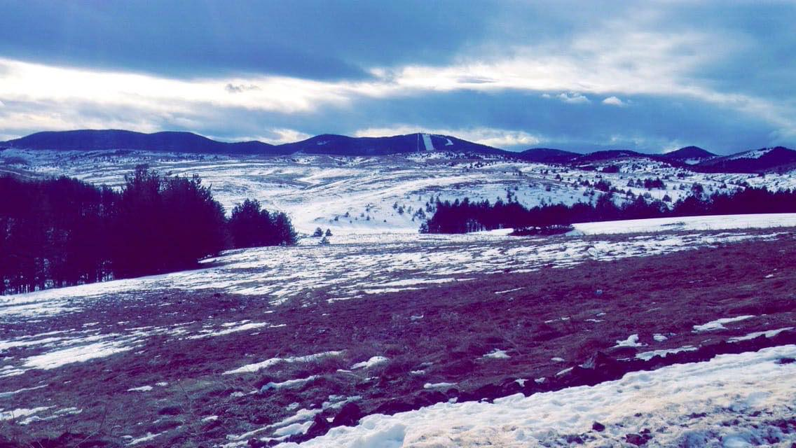 Zlatibor vazdusna banja